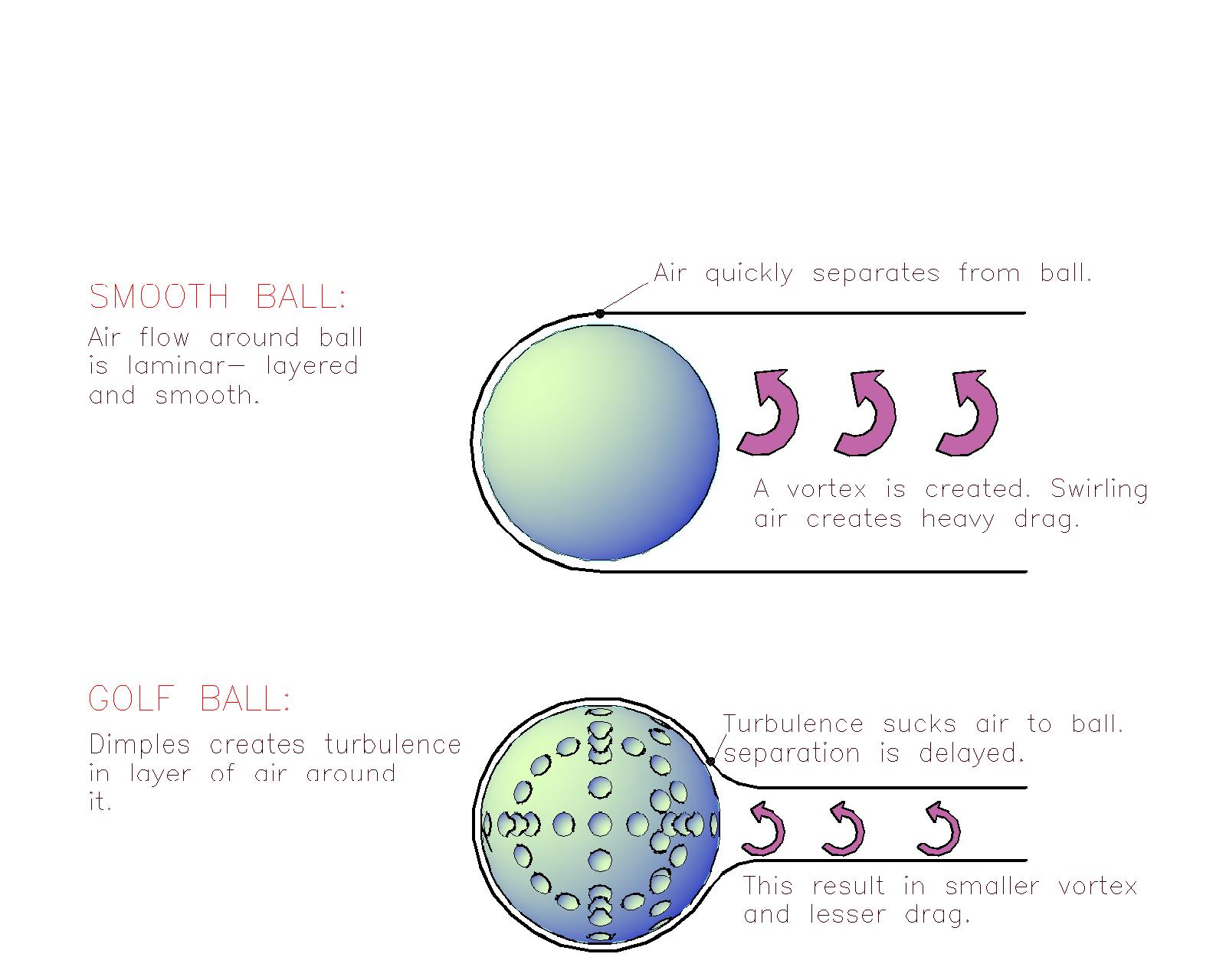 This image shows the difference in golf and smooth ball